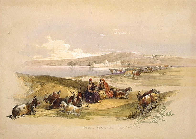 Ashdod (Isdud), Painting by David Roberts, 1839